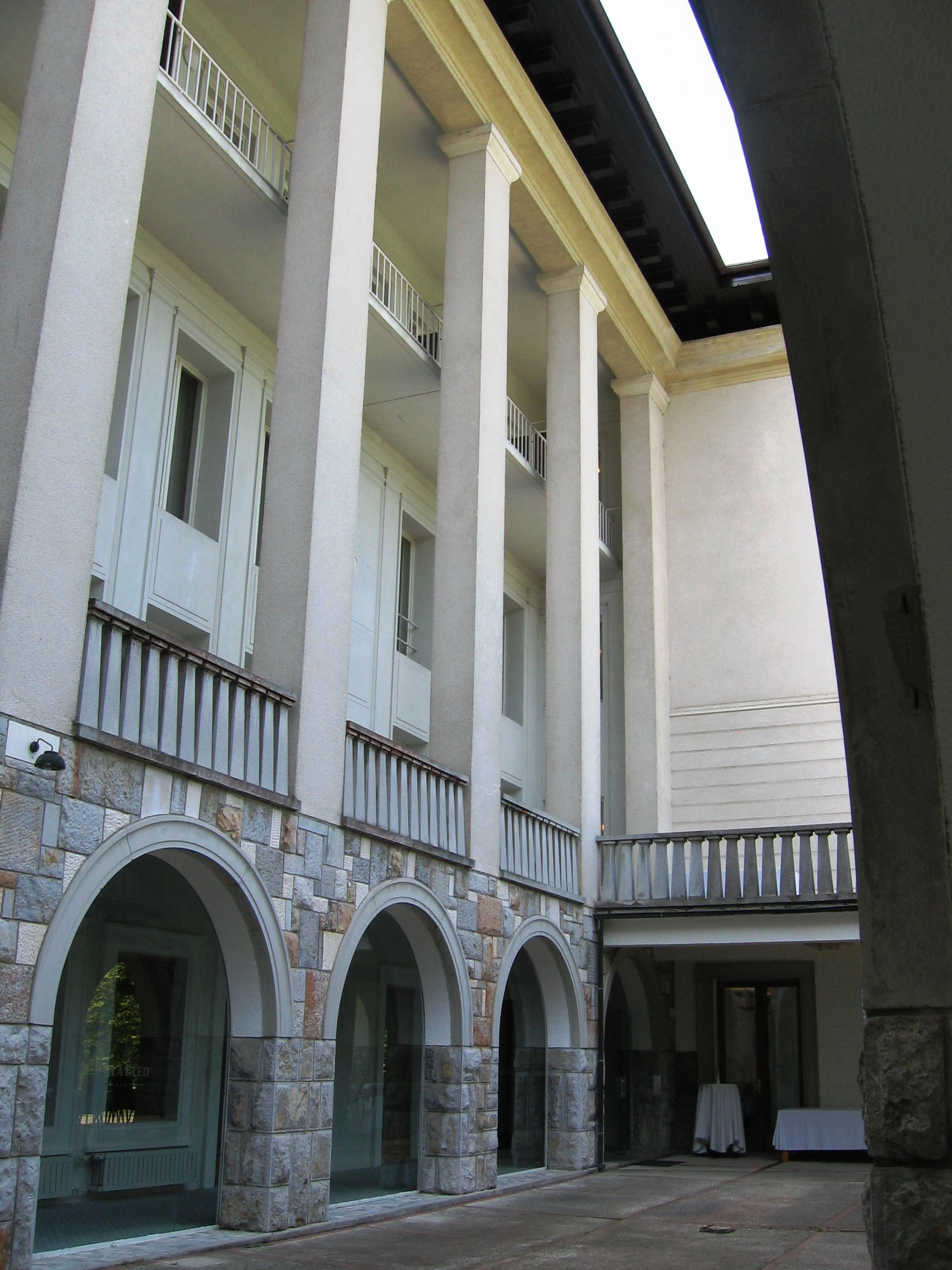 Villa Bled, Bled, Slovenia, 1